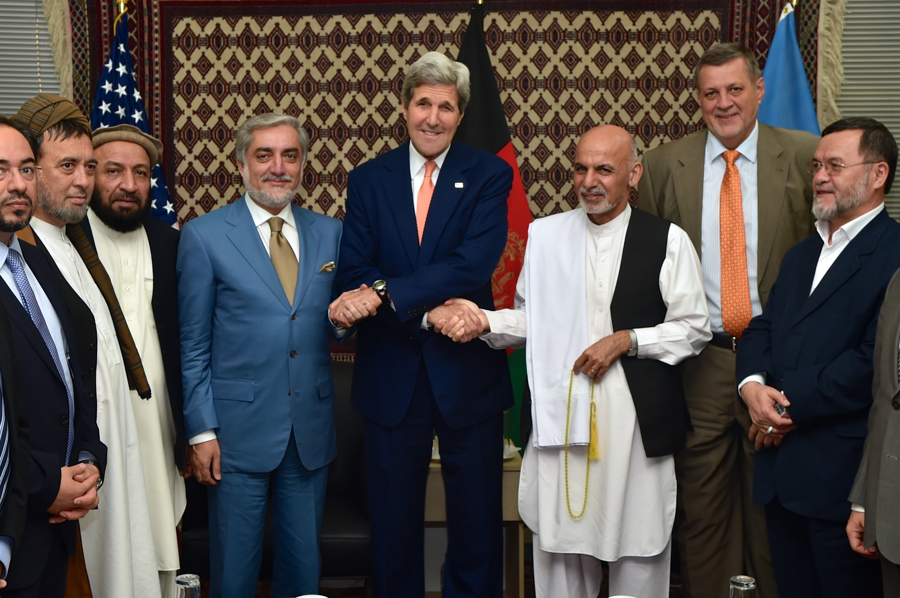 U.S. Secretary of State John Kerry shakes hands with Afghan presidential candidates Abdullah Abdullah and Ashraf Ghani after a press conference in Kabul, Afghanistan on August 8, 2014. [State Department photo/ Public Domain]